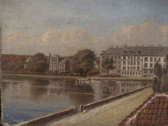 Sortedam Dossering viewed from Østerbrogade in Copenhagen, Denmark